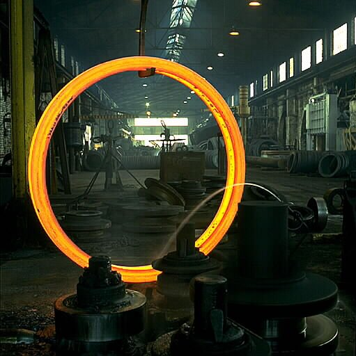 Railway-wheel manufactured at Surahammars Bruk in Sweden.